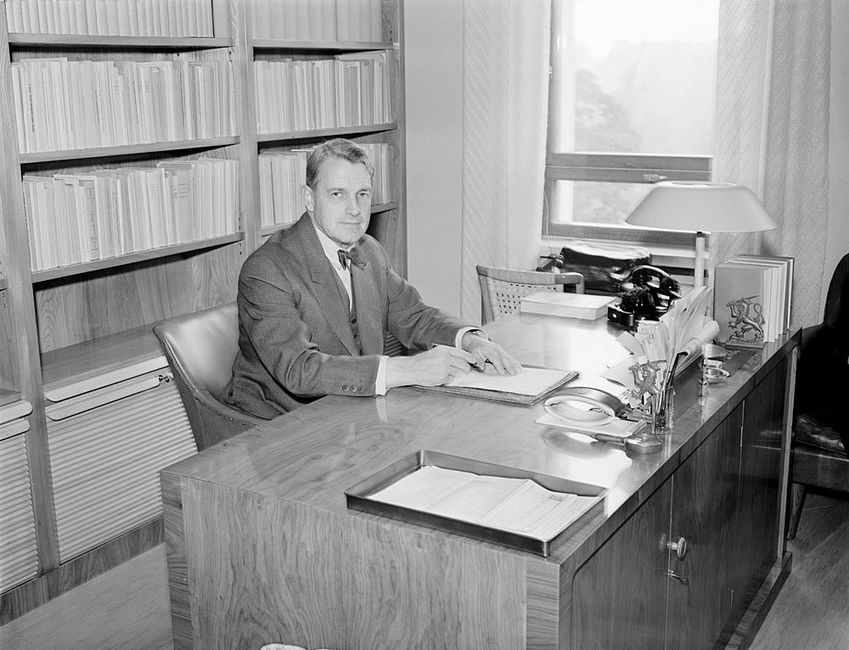 Dean of University of Helsinki, Professor Erik Lönnroth or "Beautiful Erik" in his office.